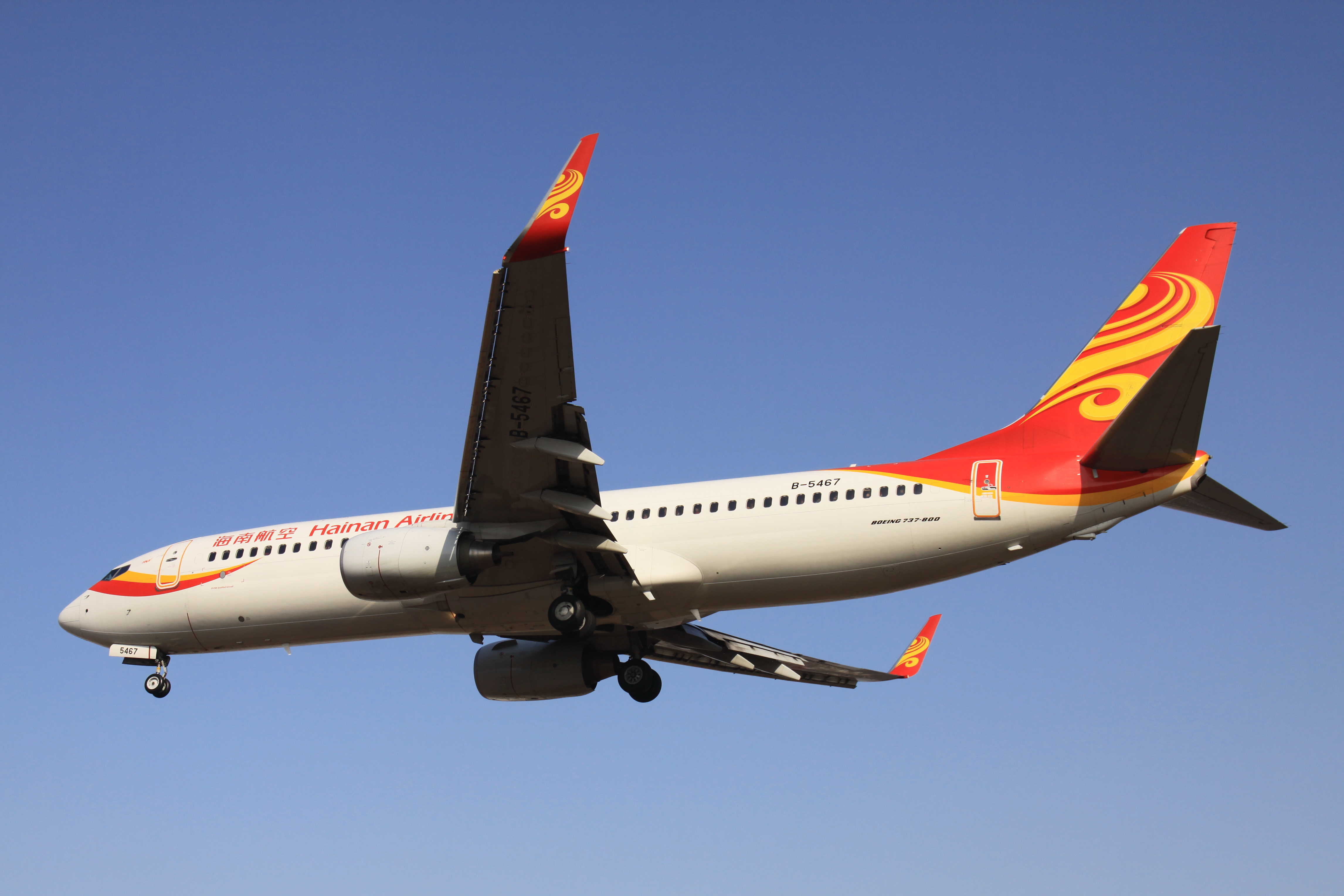 Final approach to Runway 28, Dalian Airport, Boeing 737-84P, c/n:36779